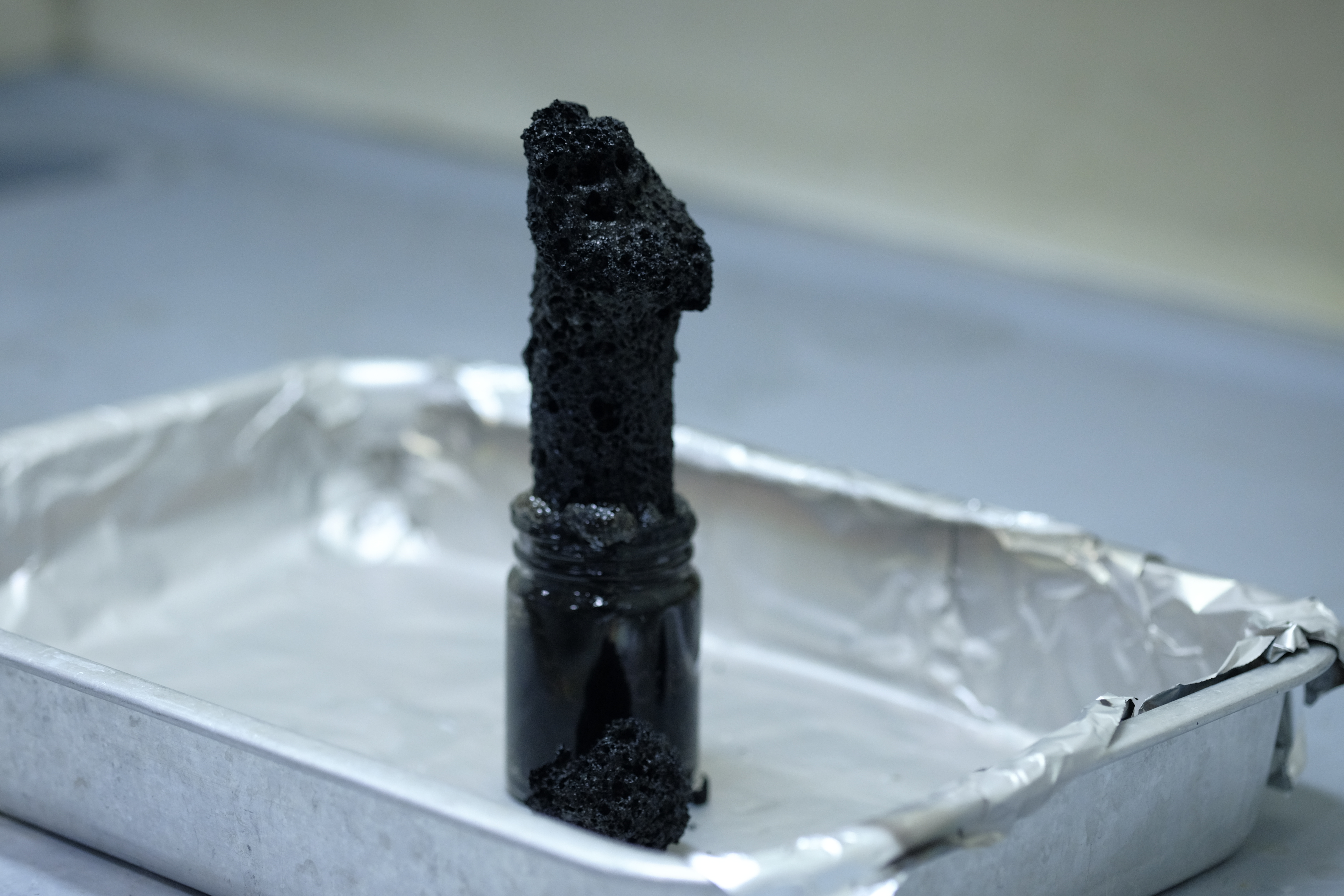 Product of carbon snake experiment